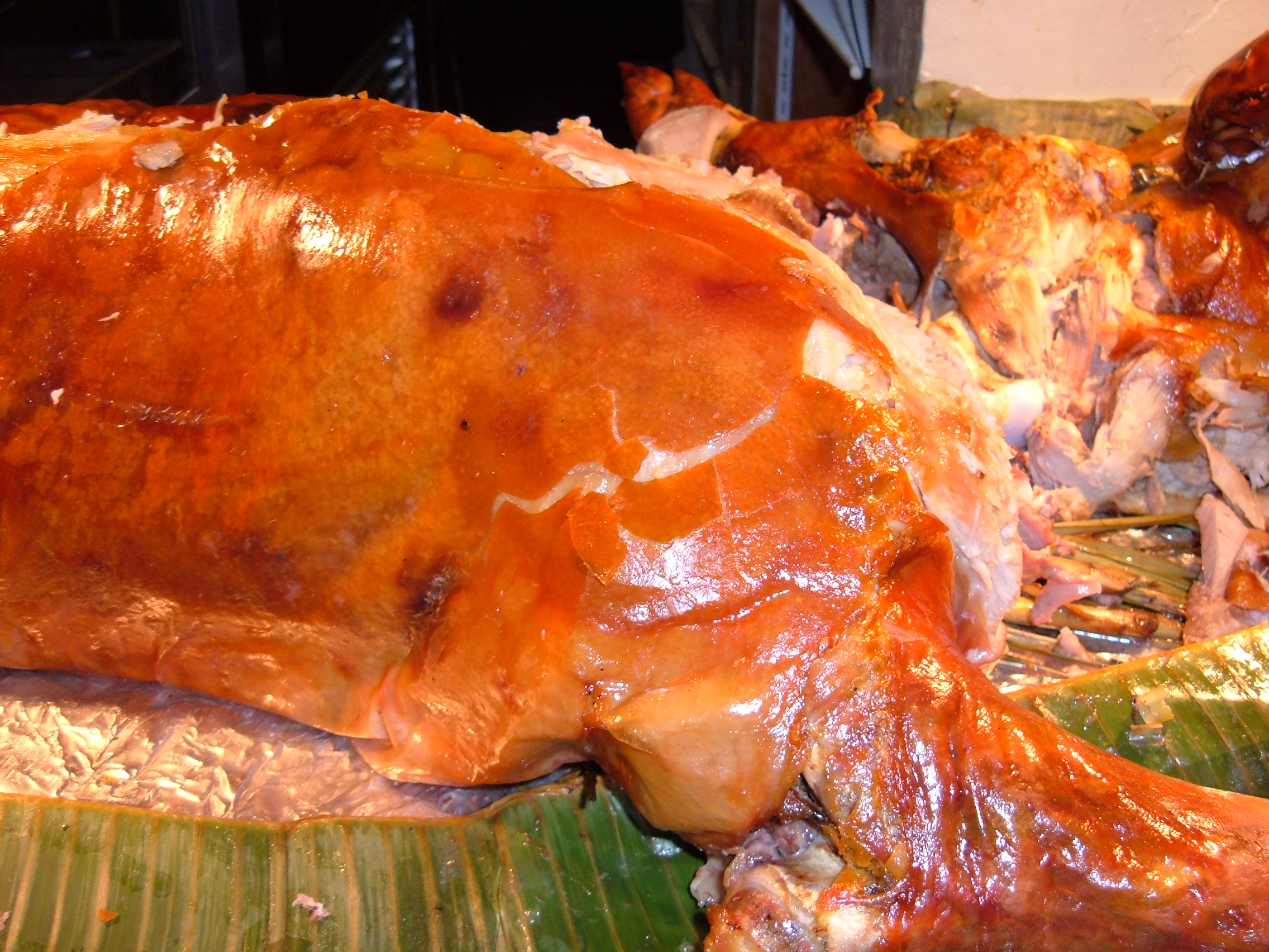 Lechón from Taste Buds in San Bruno, California.